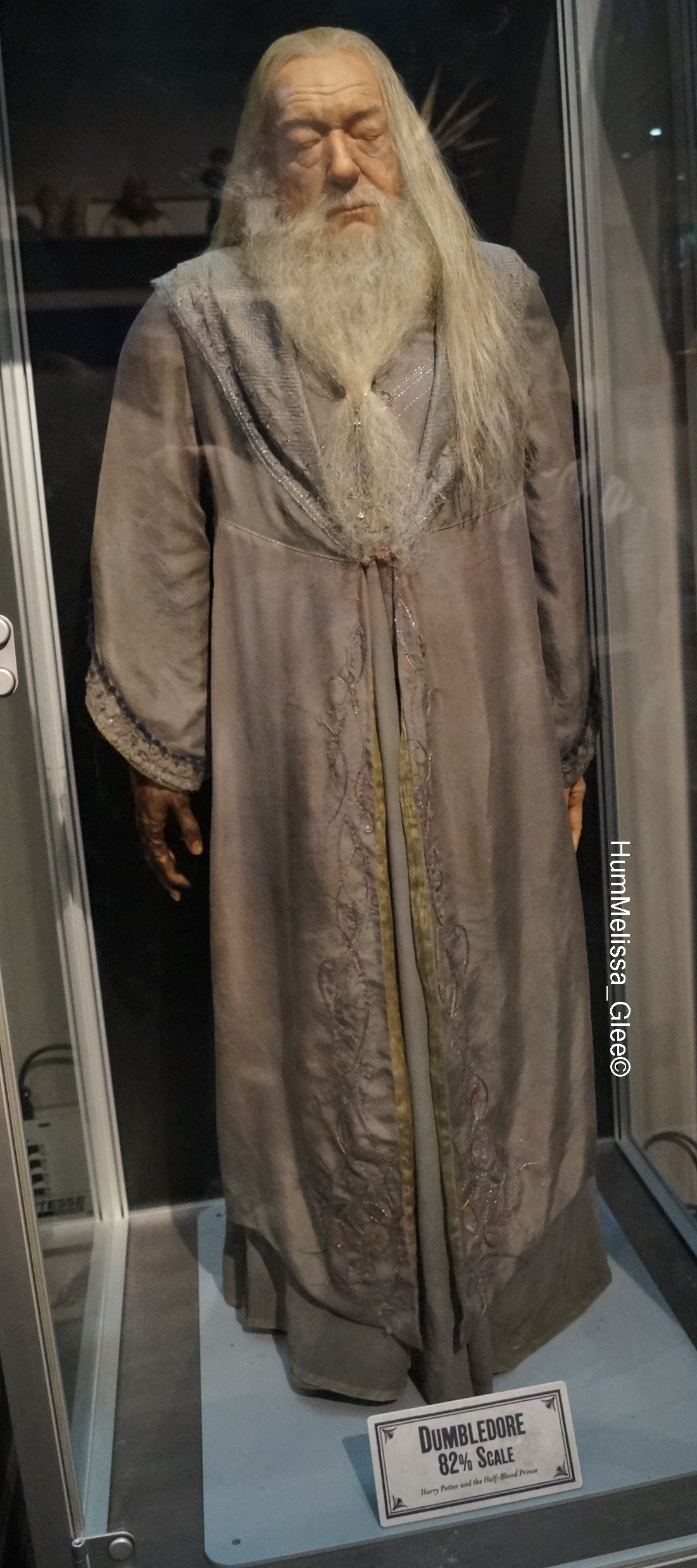 Wax figure of Albus Dumbledore, as he appeared at Harry Potter and the Half-Blood Prince film.